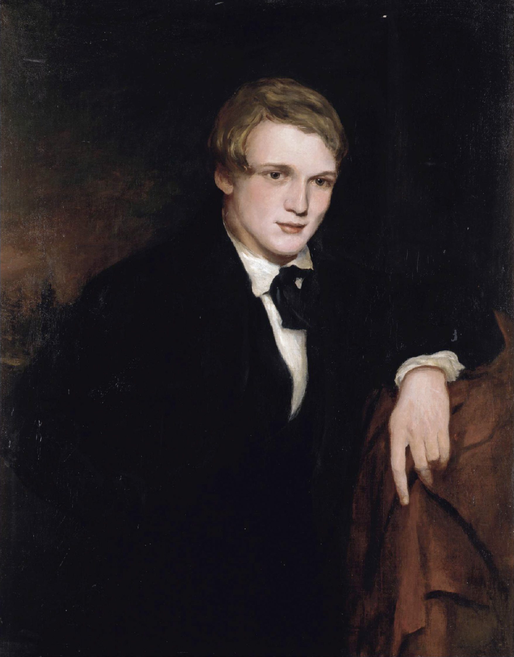 William Powell Frith oil on canvas 91.5 x 71 cm 1836-1838